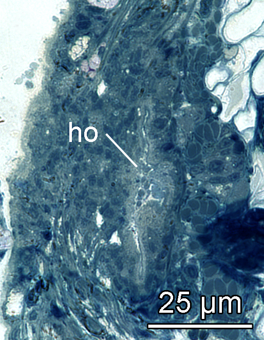 A microphoto of Hancock's organ of Pseudunela marteli from Vanuatu. ho - Hancock's organ.